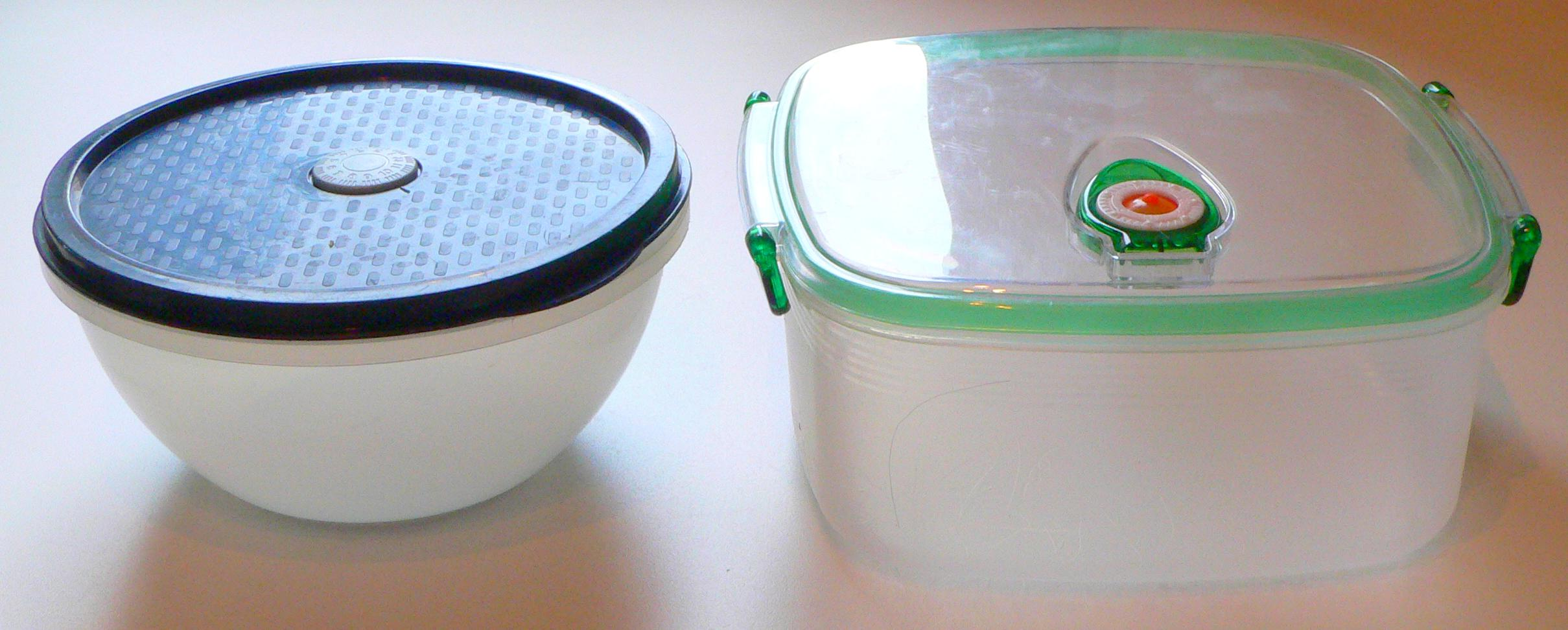 plastic containers for food